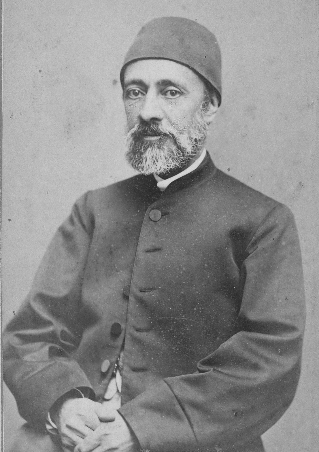 Mehmed Emin Âli Pasha (1815-1871), Ottoman Grand Vizier during the reigns of Sultan Abdülmecid and Sultan Abdülaziz.